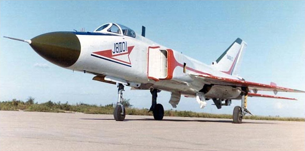 A Chinese Jian-8II (Fighter aircraft 8), or J-8 II (North Atlantic Treaty Organization reported name: Finback), parked and unchalked.